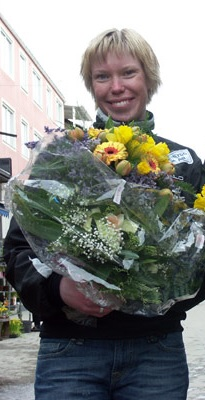 Lina beeing honored in Pietå, Sweden 2005. After winning a silver medal in the world championship sprint, Obersdorf 2005.